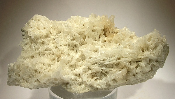 Bikitaite Locality: Gaston County, North Carolina, USA (Locality at ) A MAJOR specimen for the species, featuring crystals to 2 cm on solid bikitaite matrix! Old material, hard to come by, and this is the best I have seen. 11.2 x 5 x 2 cm